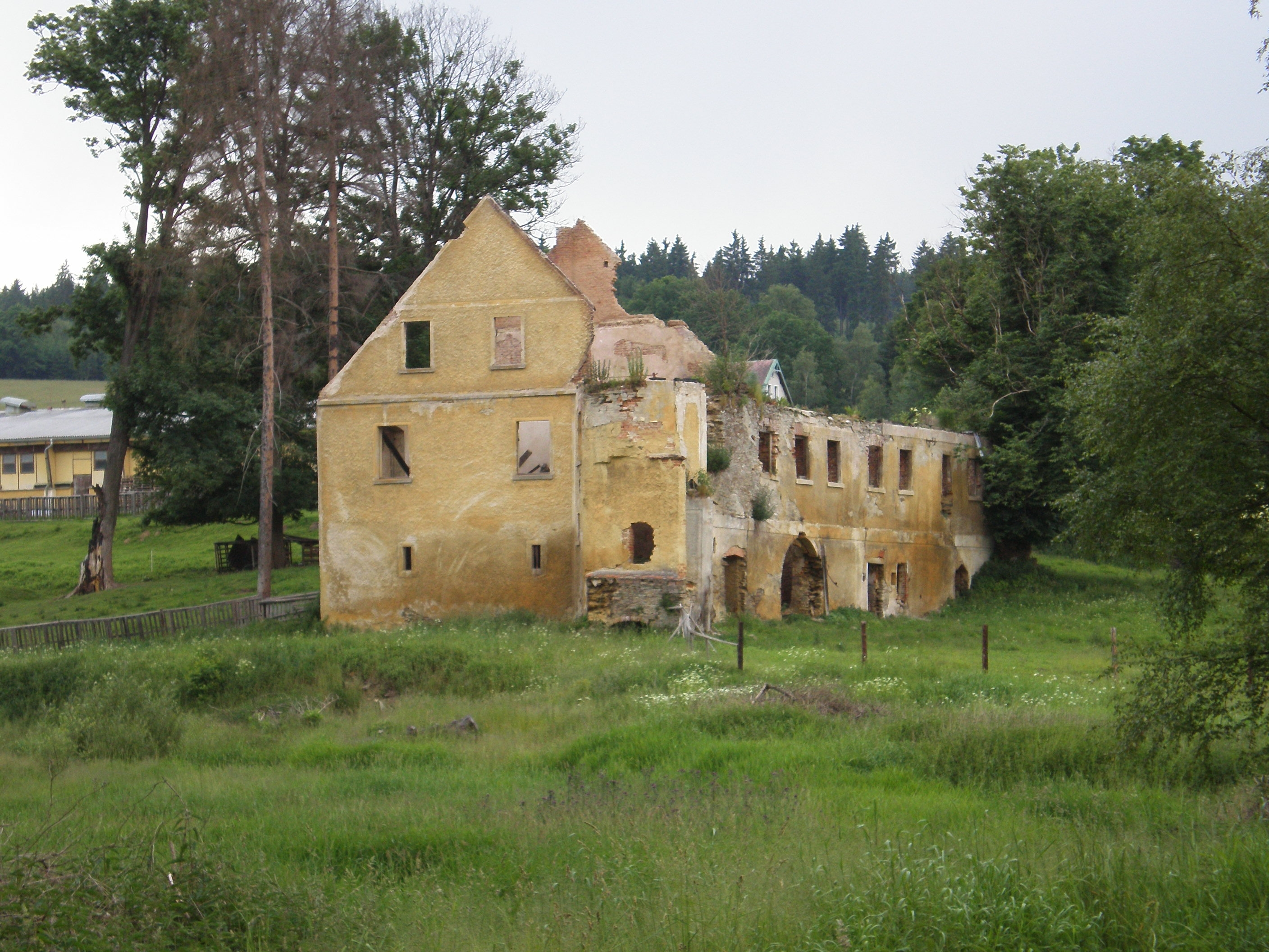 Ruins of Castle in Kopaniny (City of Aš), Czech Republic